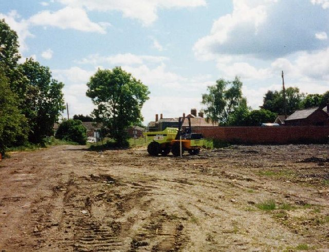 Site of former Shipston-on-Stour station. Shipston-on-Stour was served by a railway line to Moreton-in-Marsh. The station was closed in May 1960 and later demolished apart from the weighbridge office seen on the right behind the wall. This photograph was taken in May 2001.